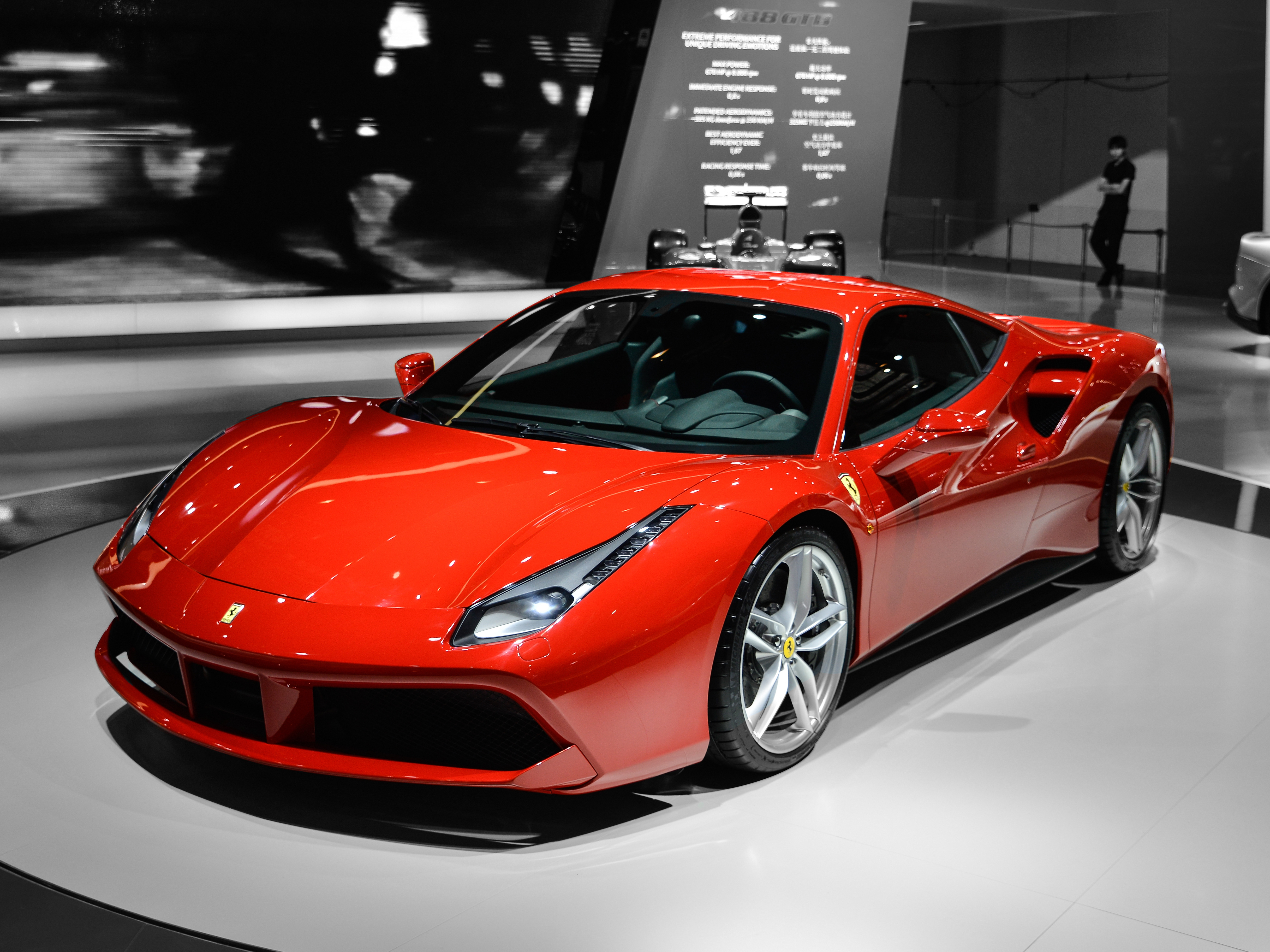 Ferrari 488 GTB at the 2015 Shanghai Auto Show